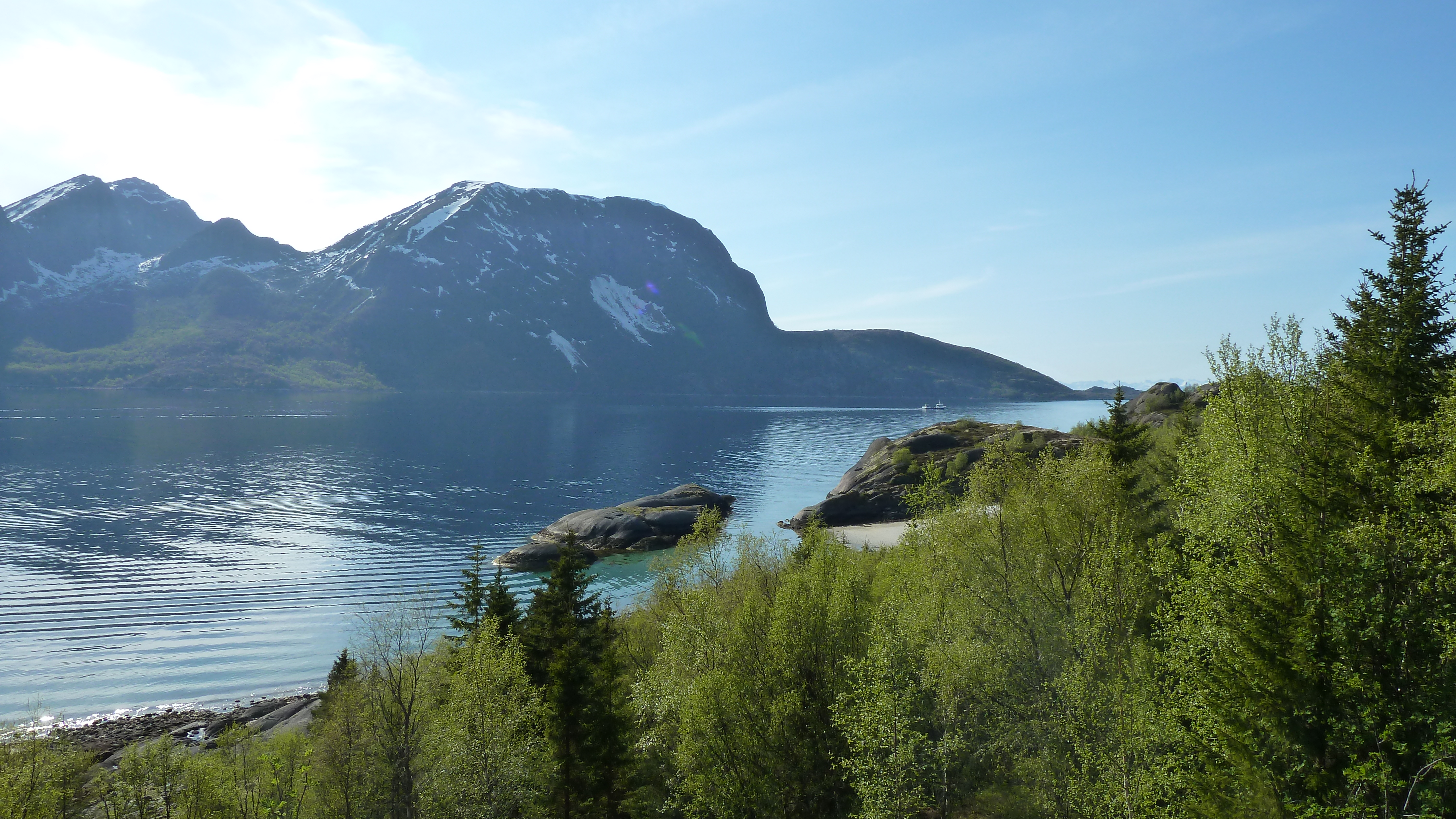 Økssundet between Hamarøy and Steigen in Norway.